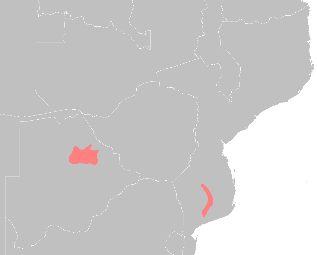 Zambezian halophytics ecoregion map